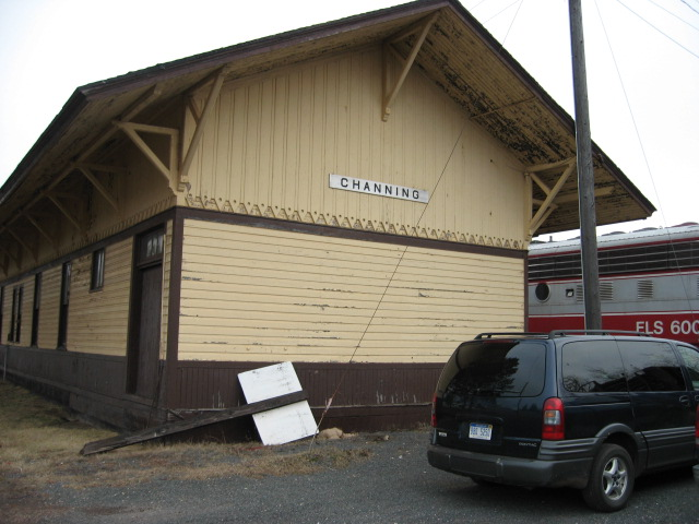 The Channing, Michigan former railroad depot in April 2009. The Escanaba and Lake Superior Railroad's locomotive #600, one of the few (only?) EMD F7's still in mainline freight service, can be seen on the right.